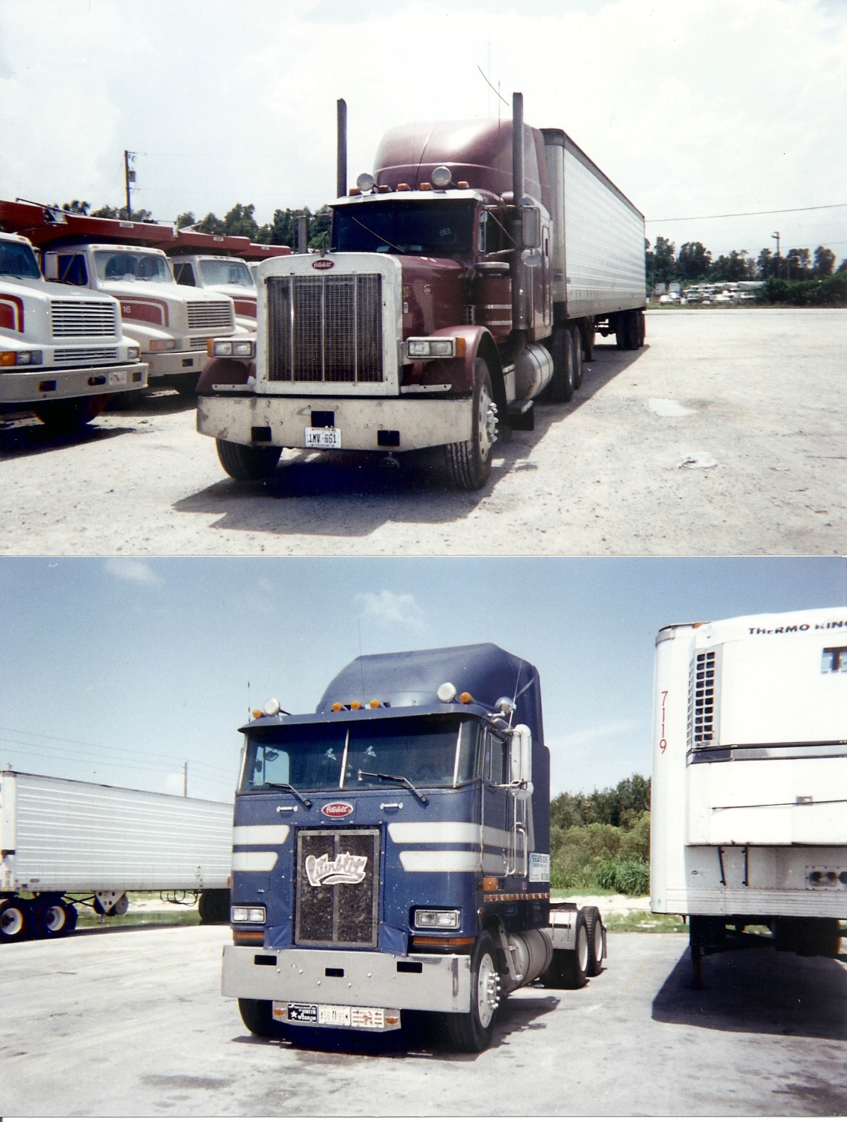 Peterbilt trucks photos taken by a Basque guy in the US. The lower one looks to be a rare 362H.